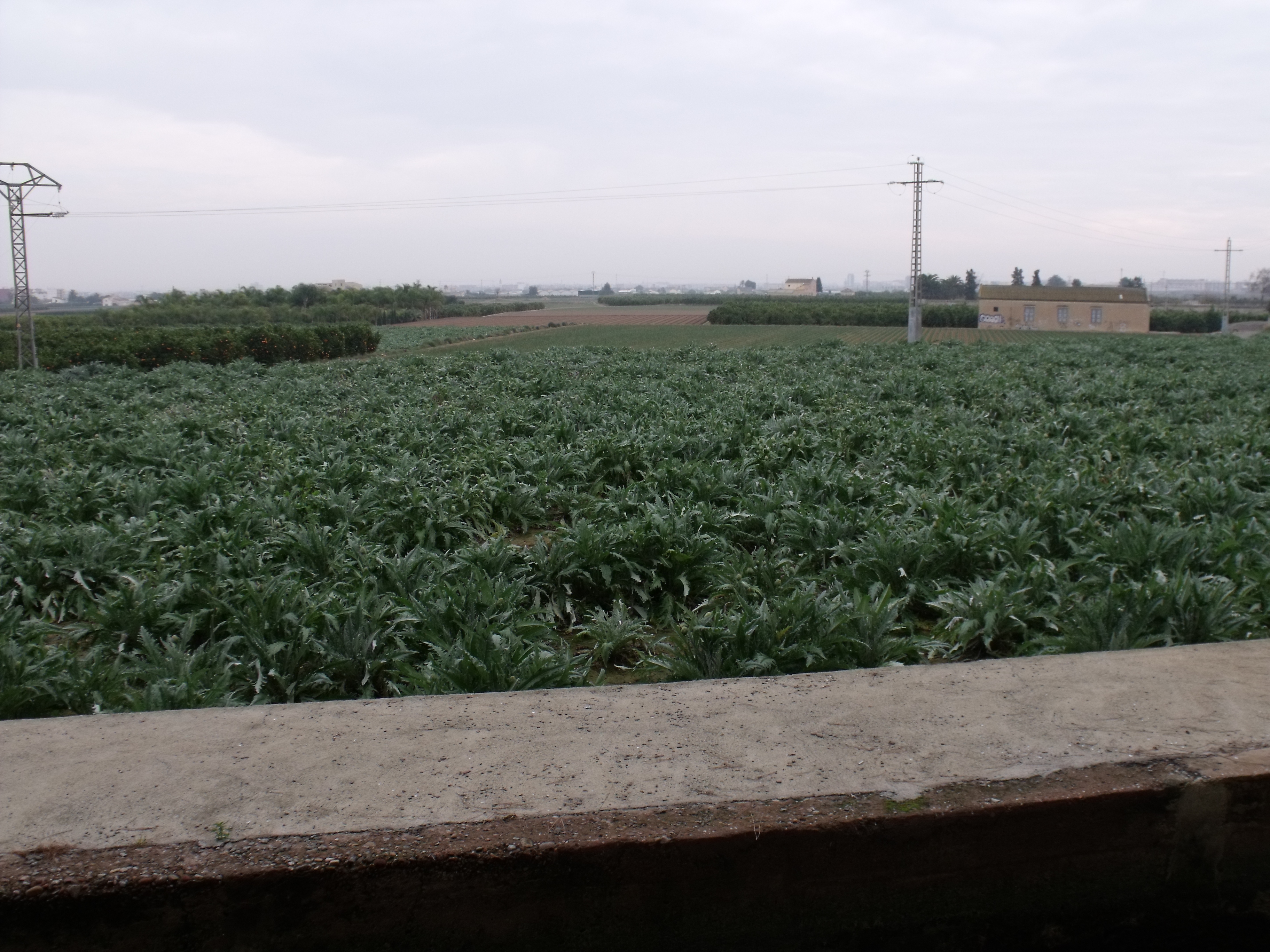 Artichoke field near Burjassot, Spain.